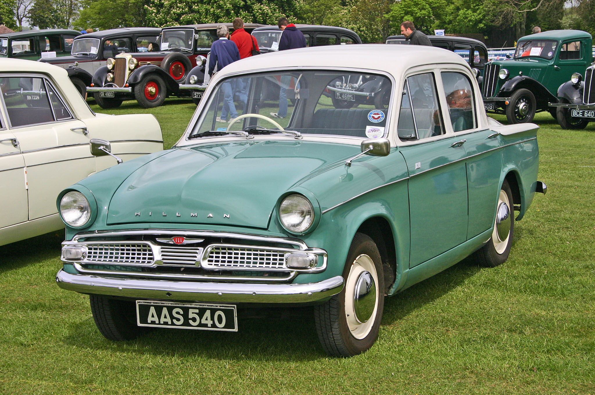 Hillman Minx Series IIIC. Main difference is that the Series IIIC was going down market because the Hillman Super Minx had been introduced as the up market model